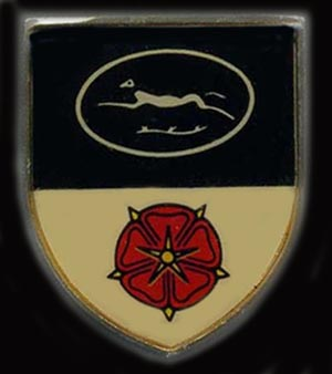 212th Armored Grenadiers Battalion (new version)